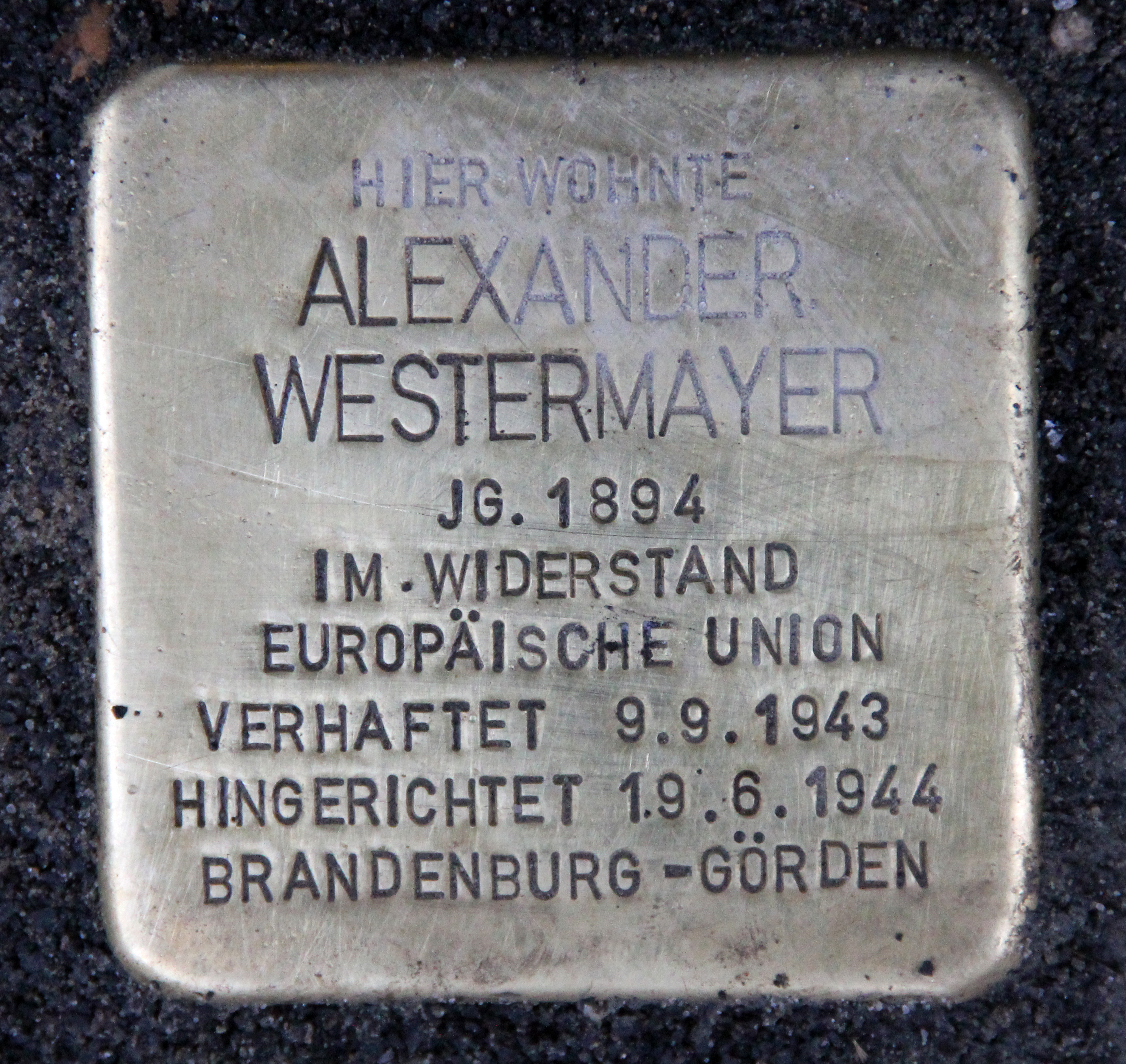 "Stolperstein" (stumbling block), Alexander Westermayer, Bayreuther Straße 41, Berlin-Schöneberg, Germany